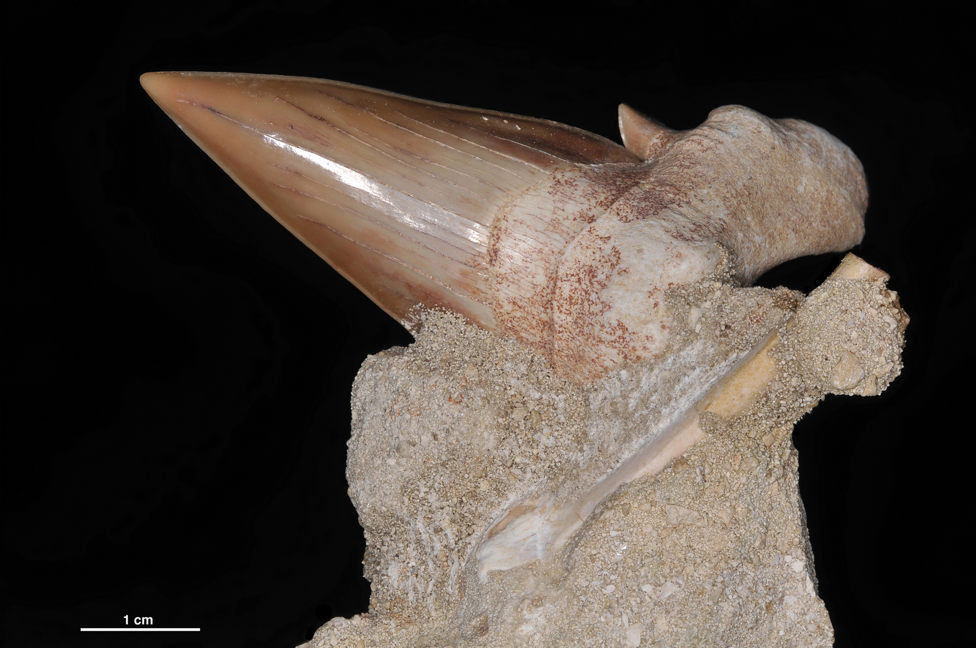 Otodus obliquus Agassiz, 1843 : Oued Zem, Khouribgha Province, Chaouia-Ouardigha Region, Morocco - Maastrichtian (Cretaceous) : 85 mm